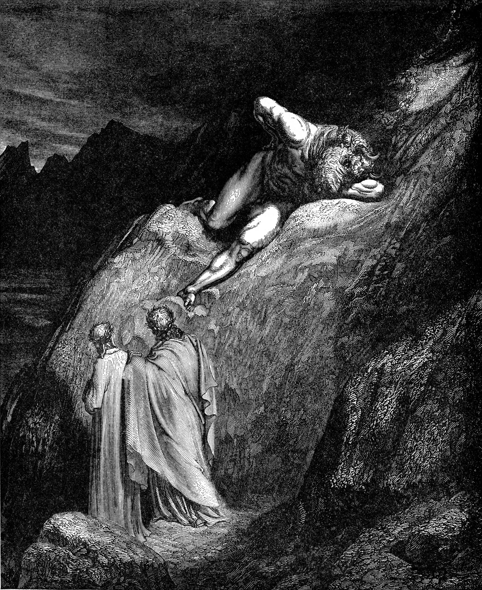 High resolution scan of engraving by Gustave Doré illustrating Canto XII of Divine Comedy, Inferno, by Dante Alighieri. Caption: The Minotaur on the Shattered Cliff